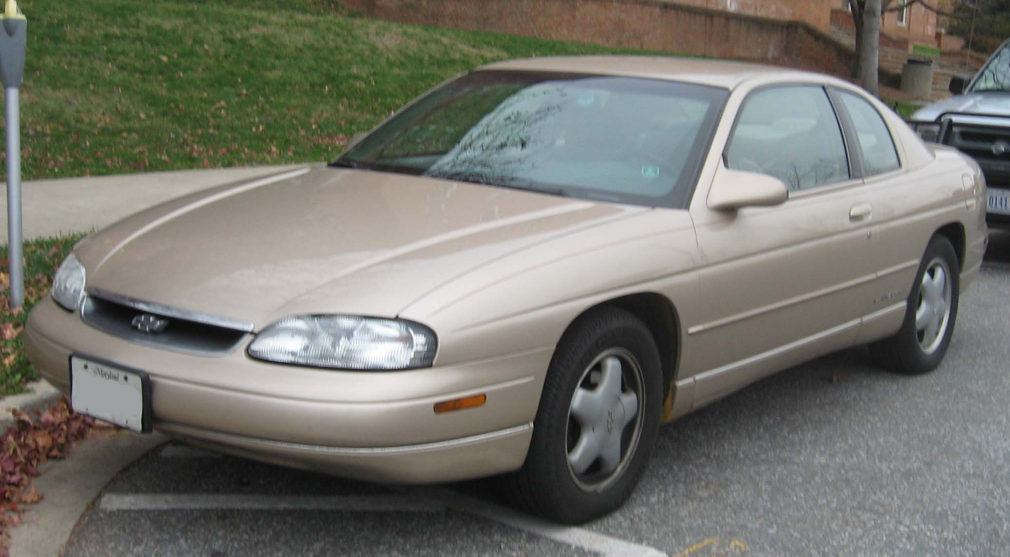 1995-1999 Chevrolet Monte Carlo photographed in College Park, Maryland, USA.